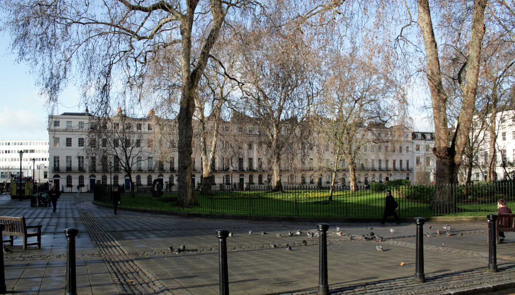 Fitzroy Square, Camden, London. Looking West.